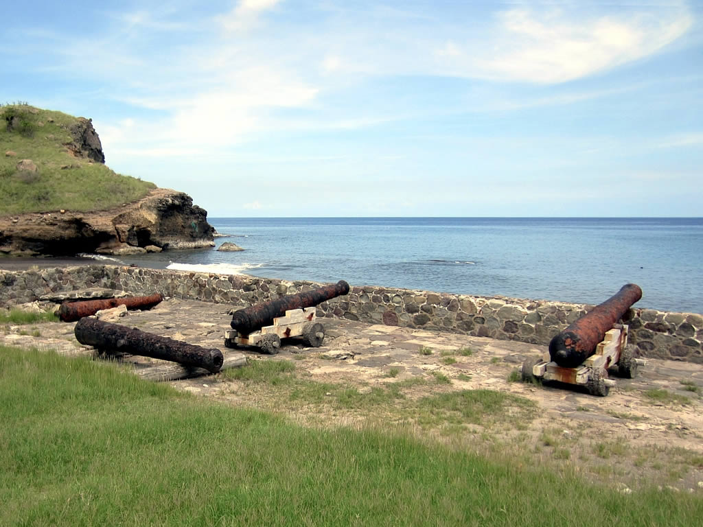 Carr's Bay Gun Battery on Montserrat's northwest coast.